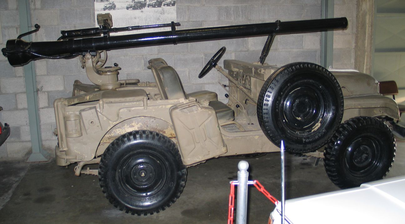 Description: A CJ-5 jeep with 105 mm recoilless rifle (M40 ?) in Batey ha-Osef Museum, Tel Aviv, Israel. 2005. Source: Photo by me, User:Bukvoed.